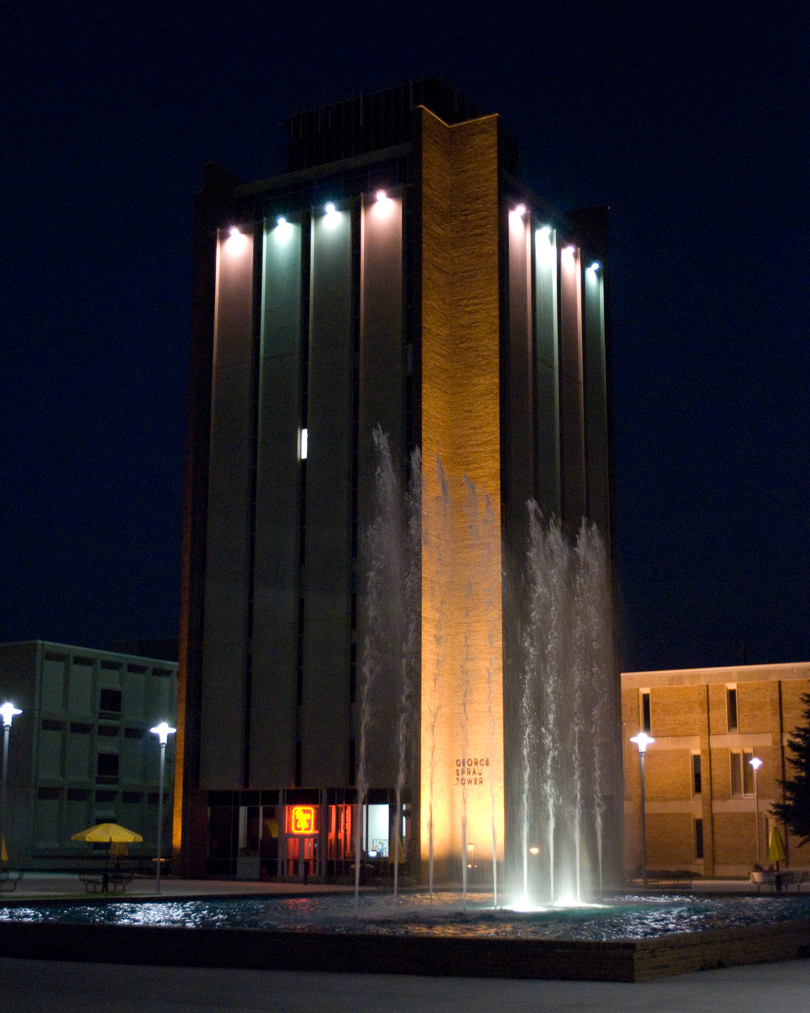 Sprau Tower on the campus of Western Michigan University